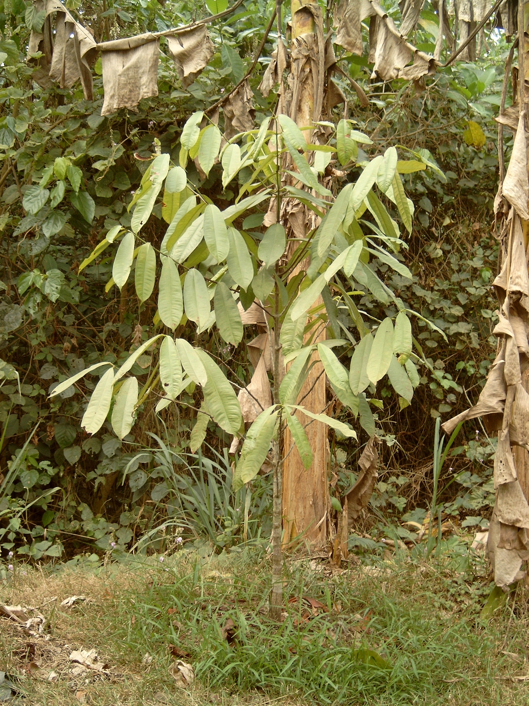 A young plant of the Allanblackia parviflora